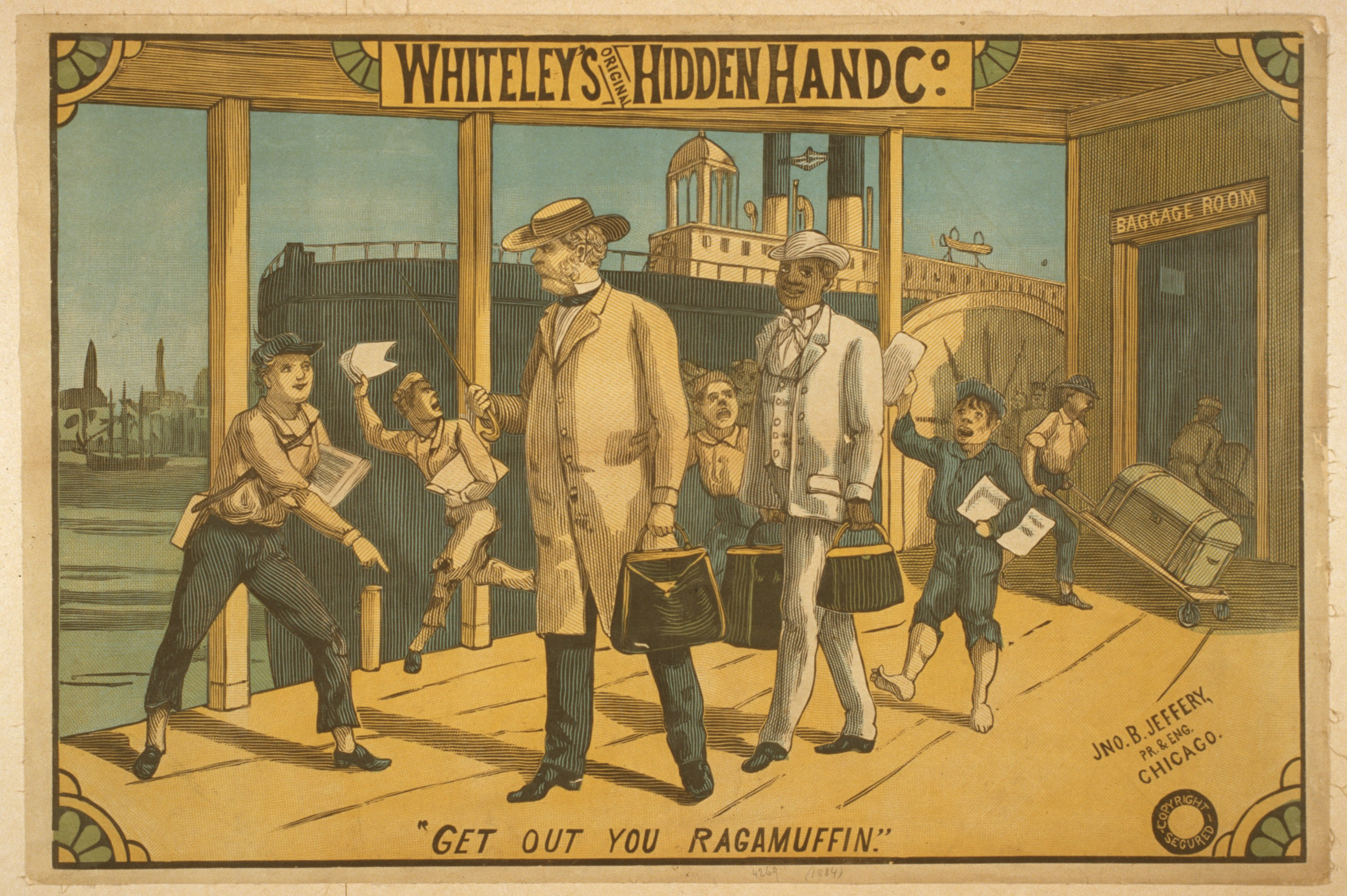 Title: Whiteley's Original Hidden Hand Co. Abstract/medium: 1 print : color woodcut ; sheet 70 x 105 cm. (poster format)